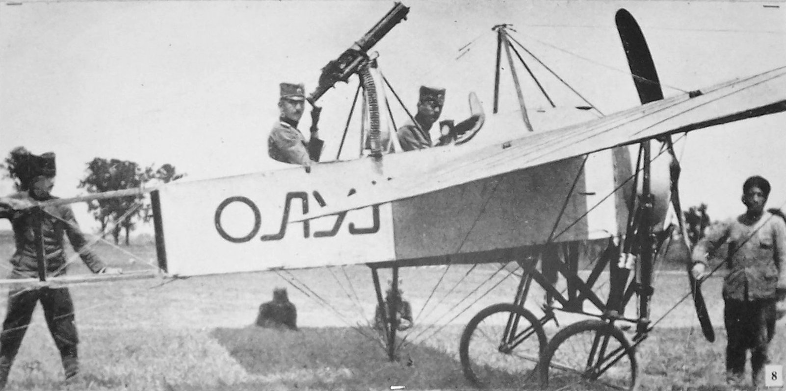 Image shows first armed airplane of the Serbian Army in 1915. Airplane is Bleriot XI-2, pilot is Tomić and observer Mihajlović. Letters are cyrillic, OLUJ in latin, meaning STORM.